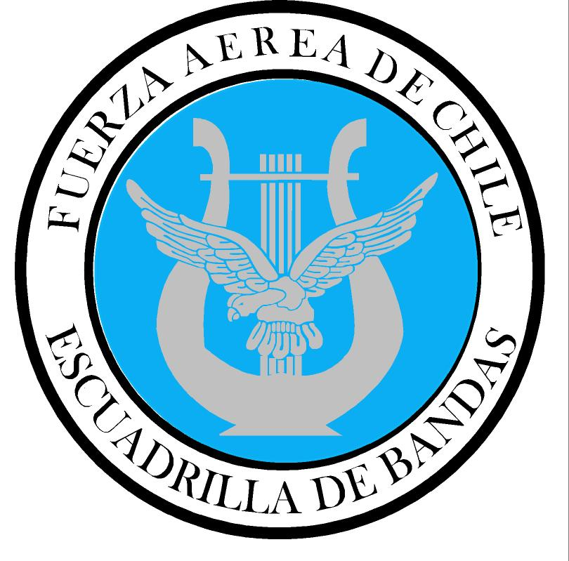 Escarapela de la Escuadrilla de Bandas FACH